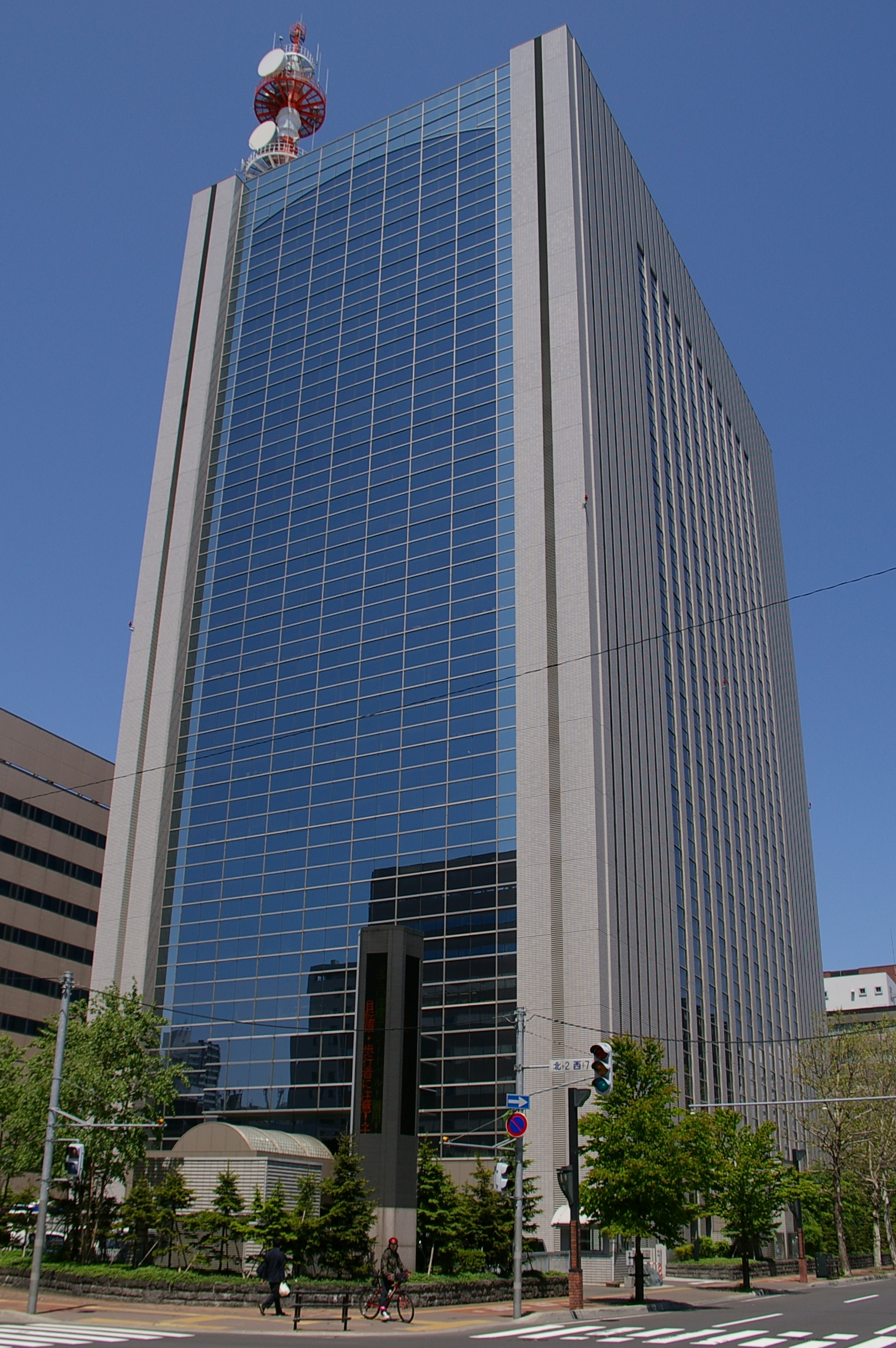 Photograph of Hokkaido Prefectural Police Headquarters in Chuo-ku, Sapporo, Hokkaido, Japan.